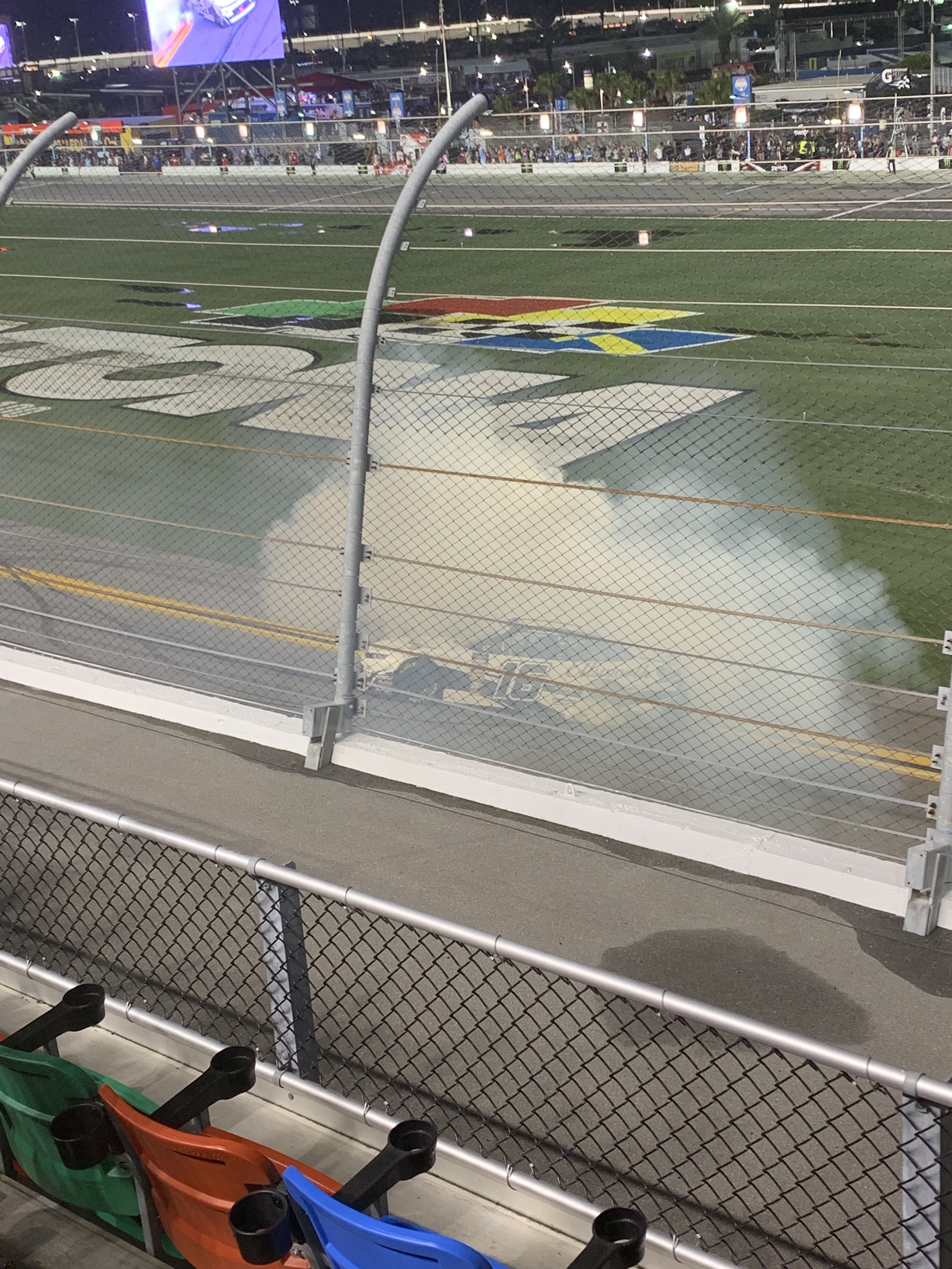 refer to caption